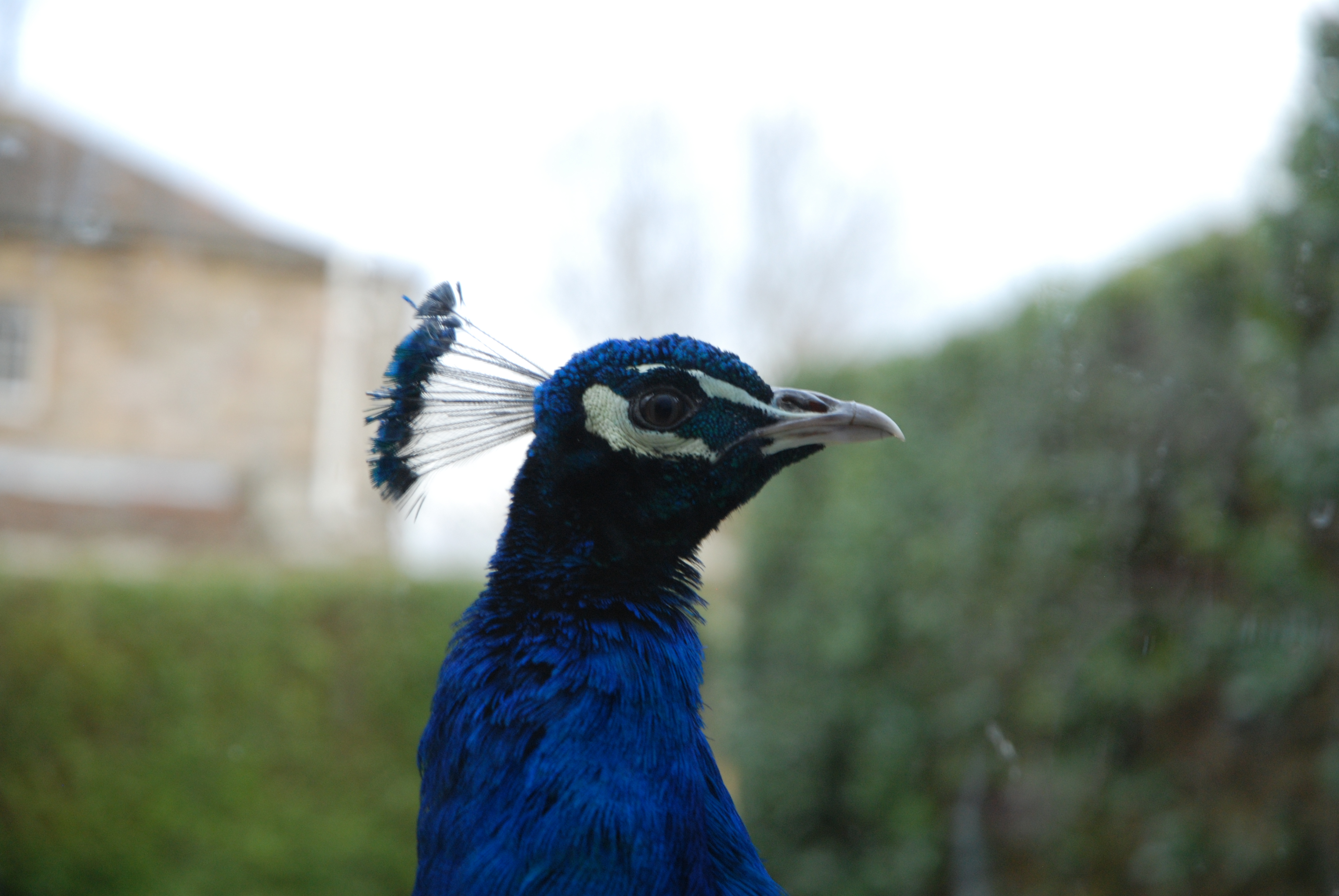 A Peacock At Lemminton Hall